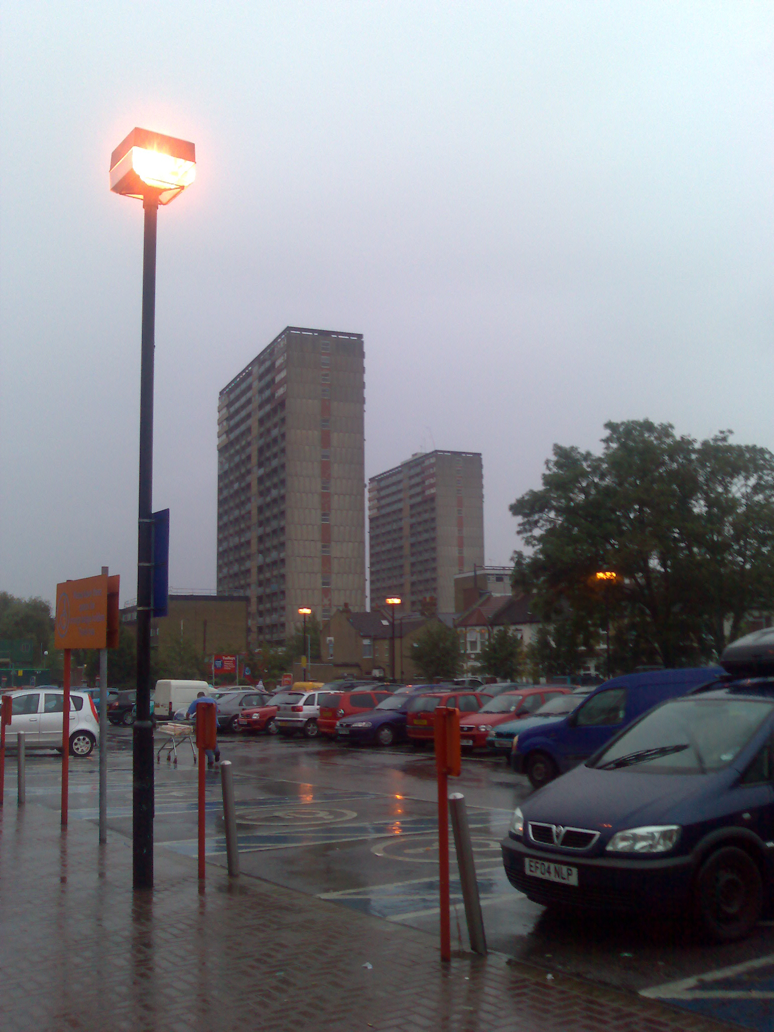 A view of Beaumont Estate